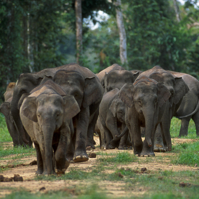 Borneo elephants